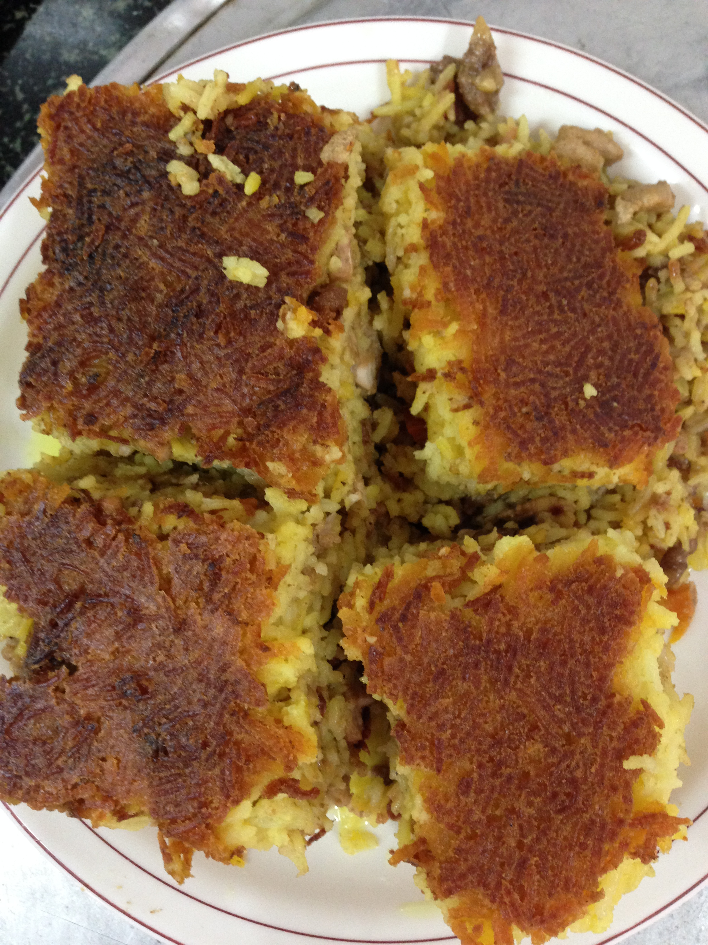 persian food